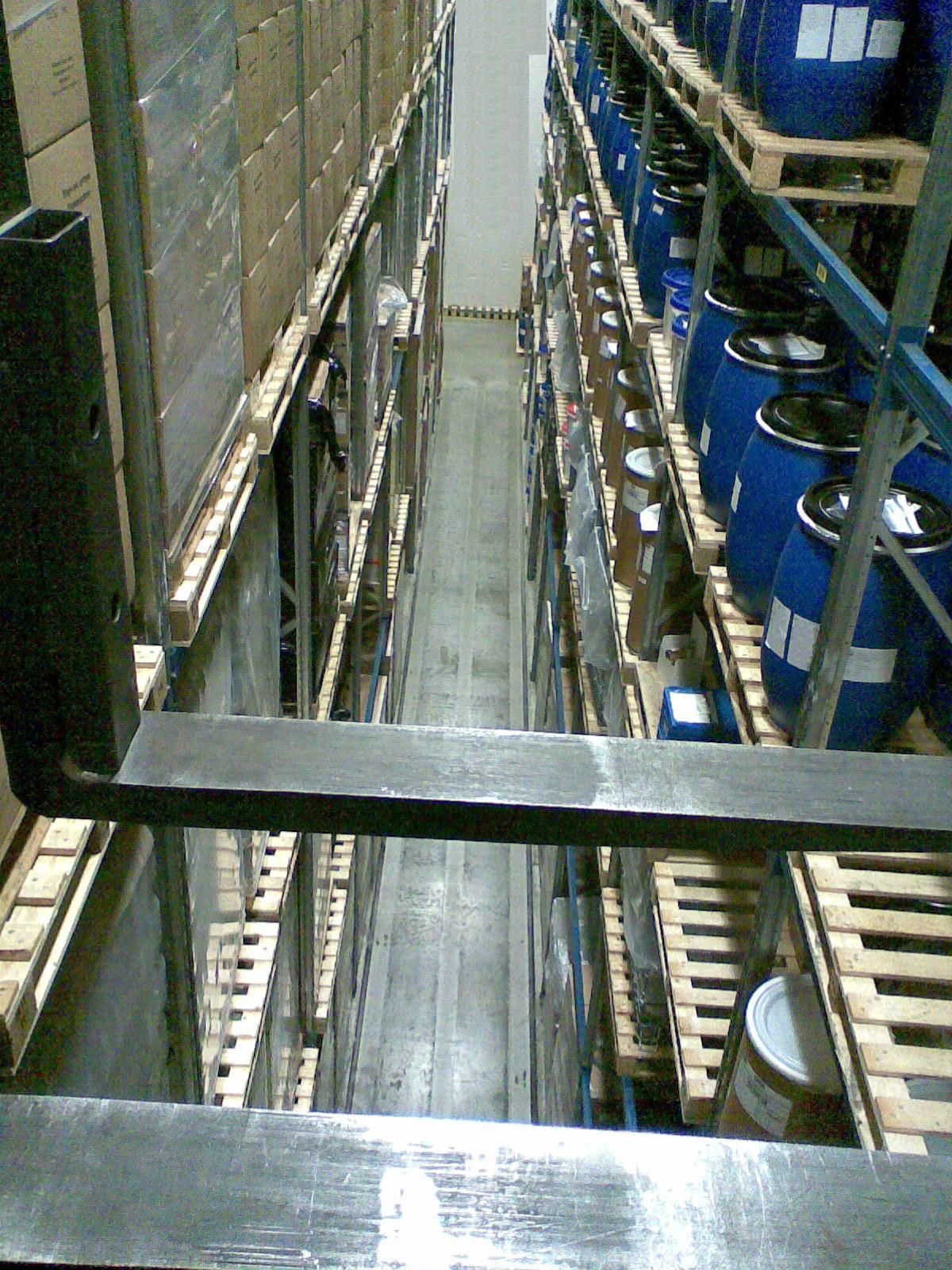 High altitude pallet racks in a foodstock warehouse